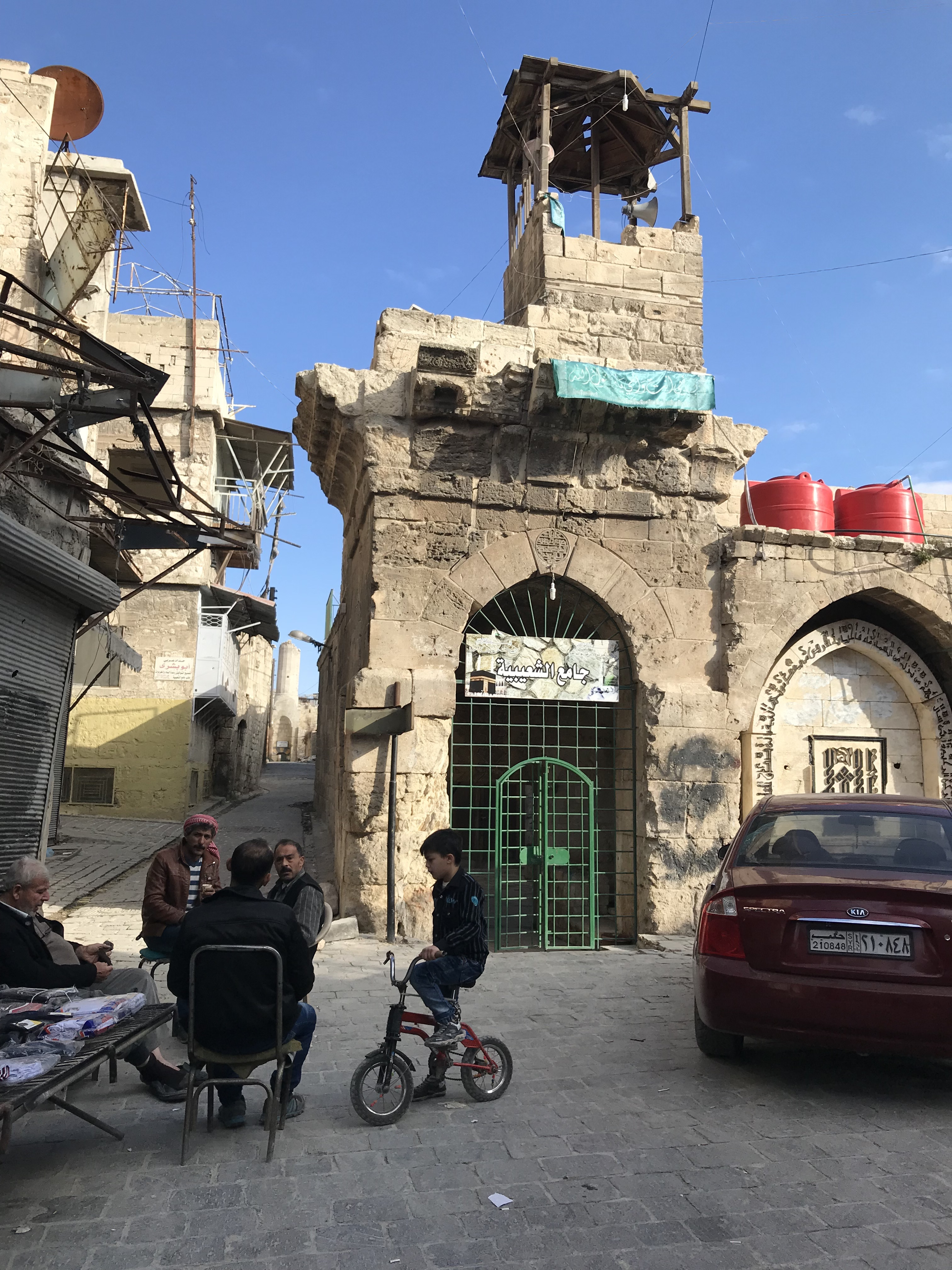 Local men and a boy sit outside the oldest mosque in Aleppo in November, 2017. Despite the damage to the neighboring area, Al-Shuaibiyah Mosque still stood.